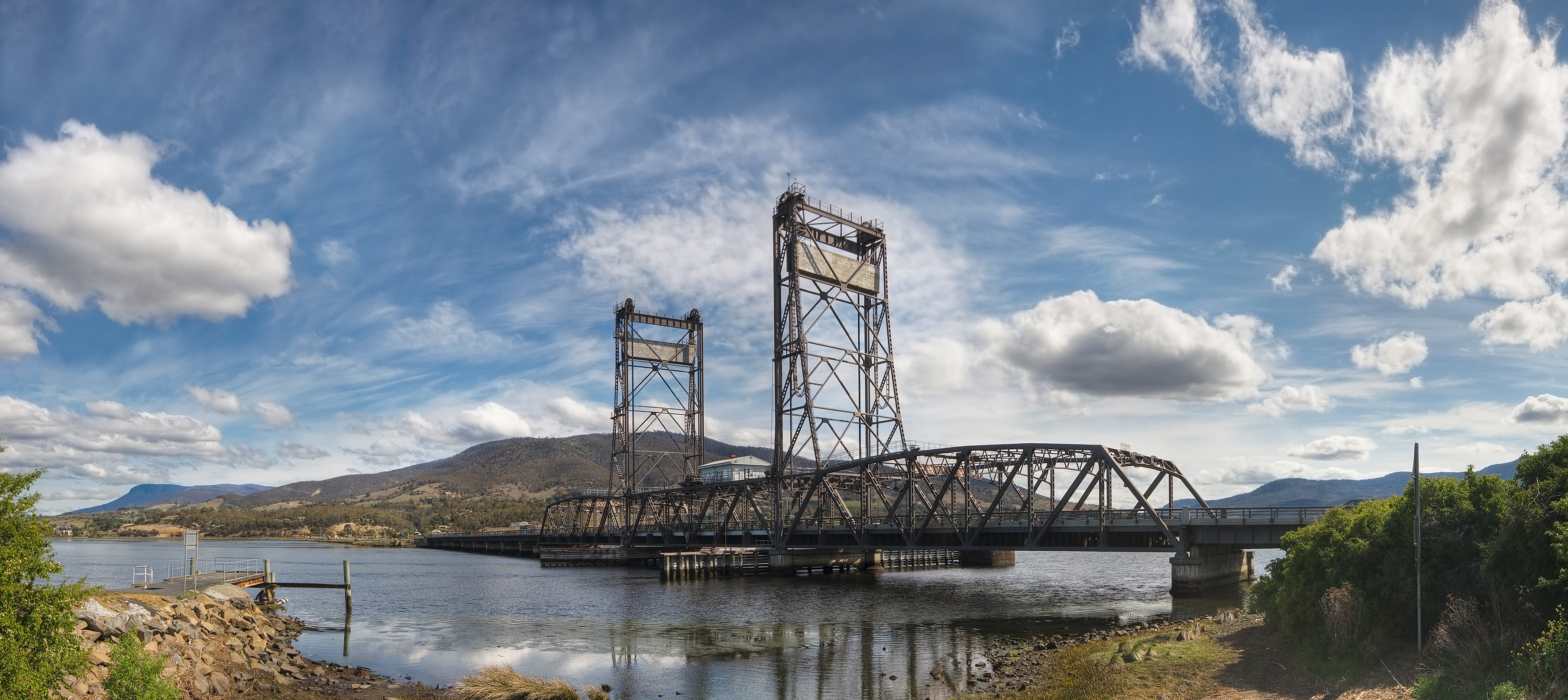 Bridgewater Causeway and Bridgewater Bridge with Granton and Mt Wellington behind. Camera data Camera Canon EOS 400D Lens Sigma 10-20mm F4-5.6 EX DC HSM Focal length 20 mm Aperture f/11 Exposure time 1/80, 1/320, 1/1250 s Sensivity ISO 100